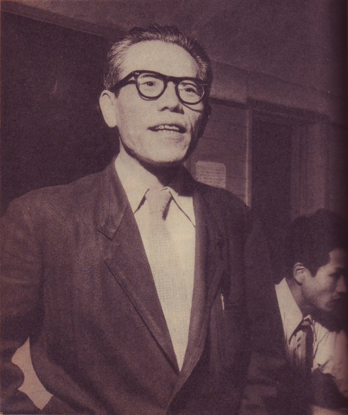 Eijirō Tōno. taken in 1954.